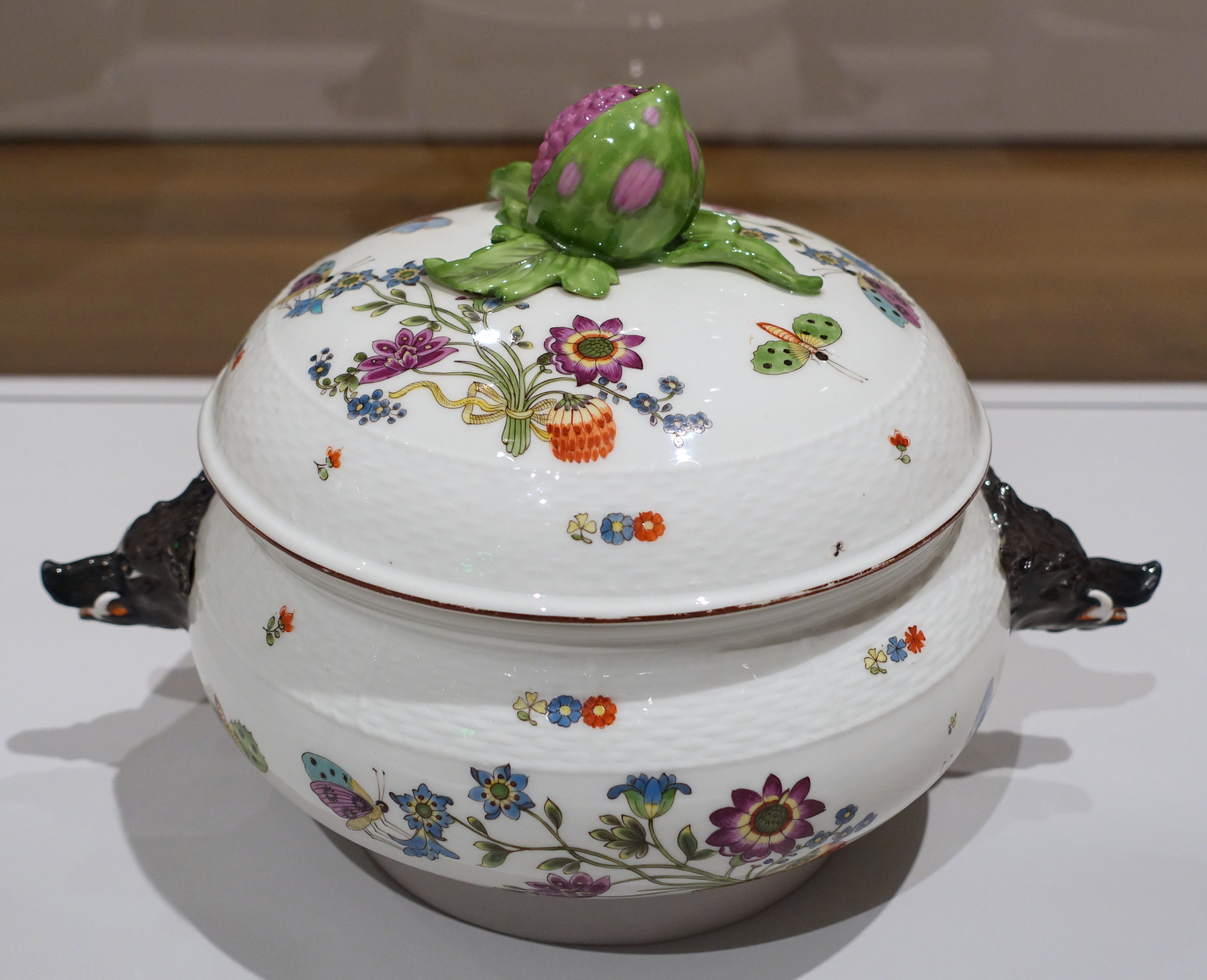 Exhibit in the Busch-Reisinger Museum, Harvard University, Cambridge, Massachusetts, USA. This artwork is in the public domain because the artist died more than 70 years ago.